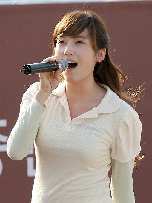 Jessica Jung on 15 May 2008